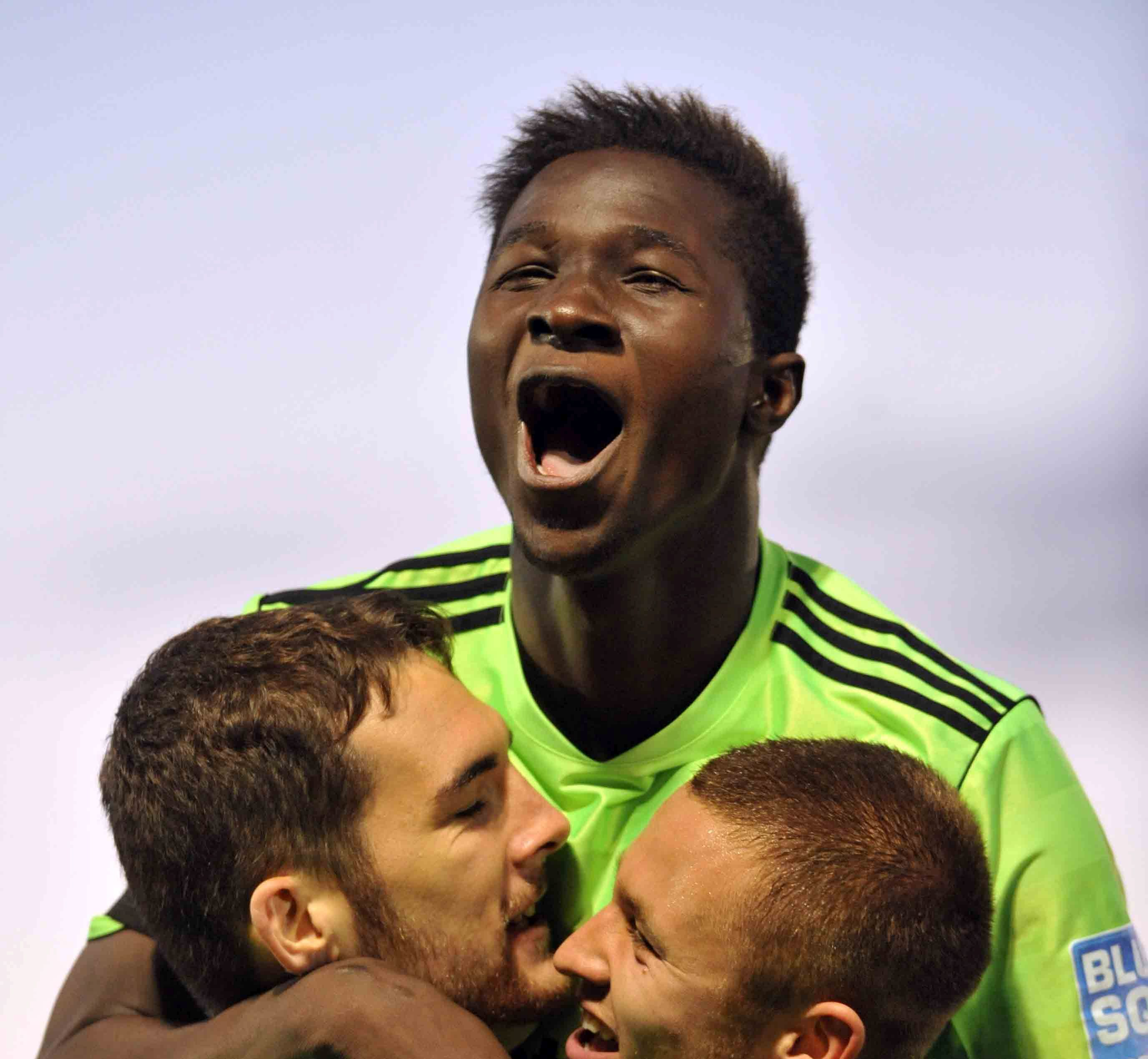 Eddie Oshodi celebrates a goal for Forest Green Rovers against Stockport in November 2012.